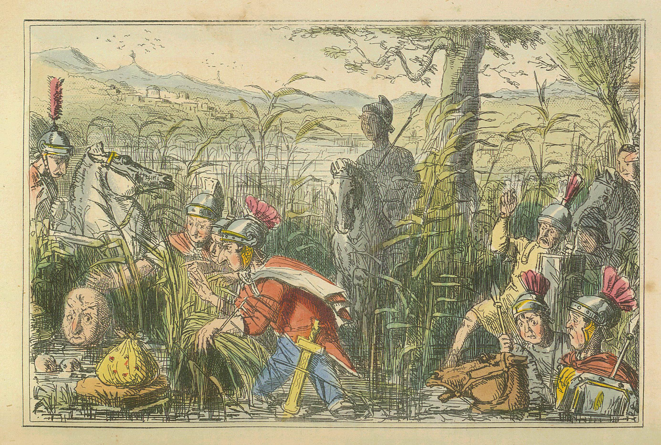 Image by John Leech, from: The Comic History of Rome by Gilbert Abbott A Beckett. Bradbury, Evans & Co, London, 1850s Marius discovered in the Marshes at Minturnae